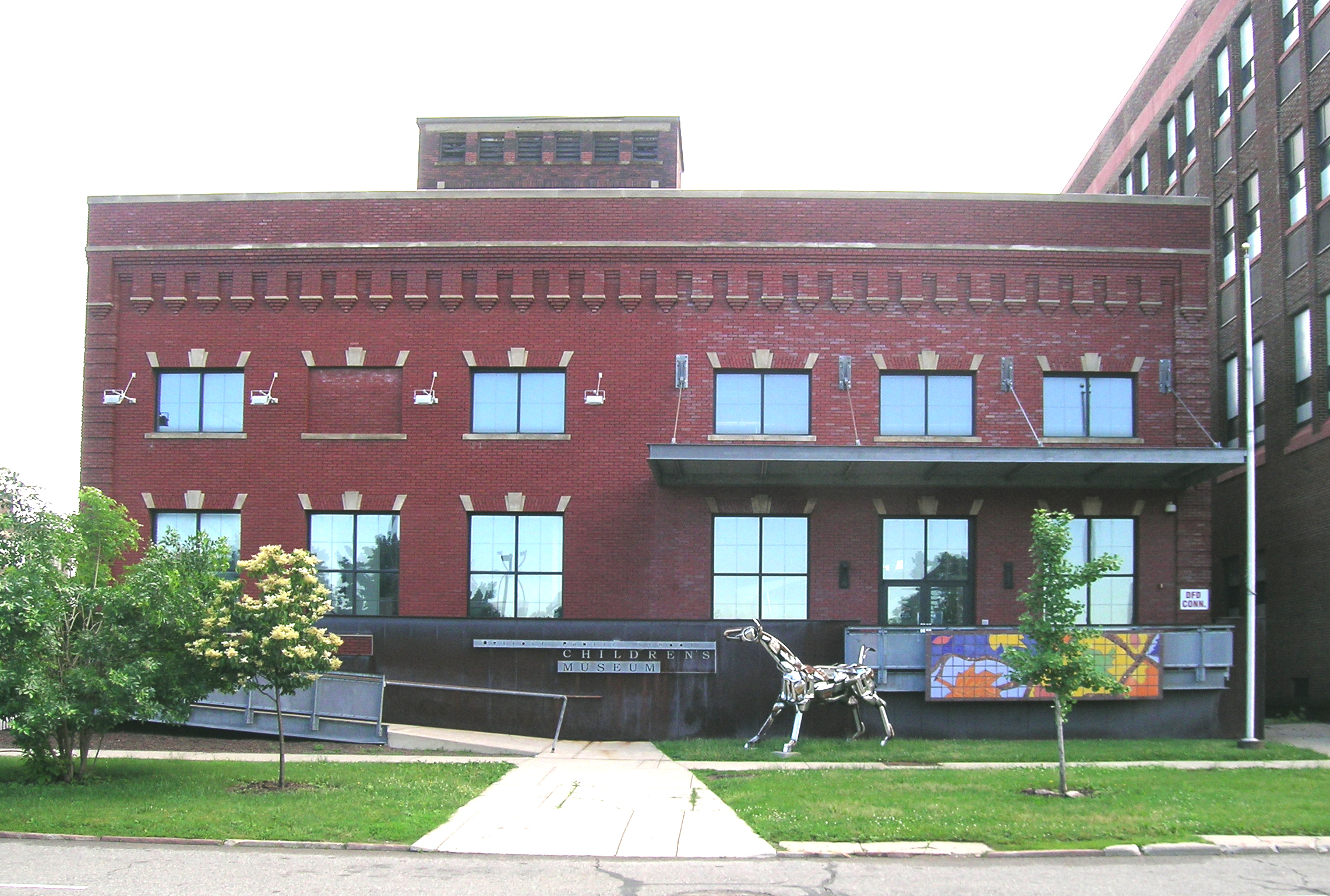 The Detroit Children's Museum at 6134 Second Avenue, Detroit, Michigan, United States, is a historic property within the New Amsterdam Historic District. It was originally an electrical substation of the Detroit Edison Company.